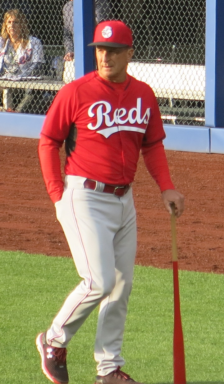 Jim Riggleman with the Cincinnati Reds during pre-game warmups, April 25, 2016.